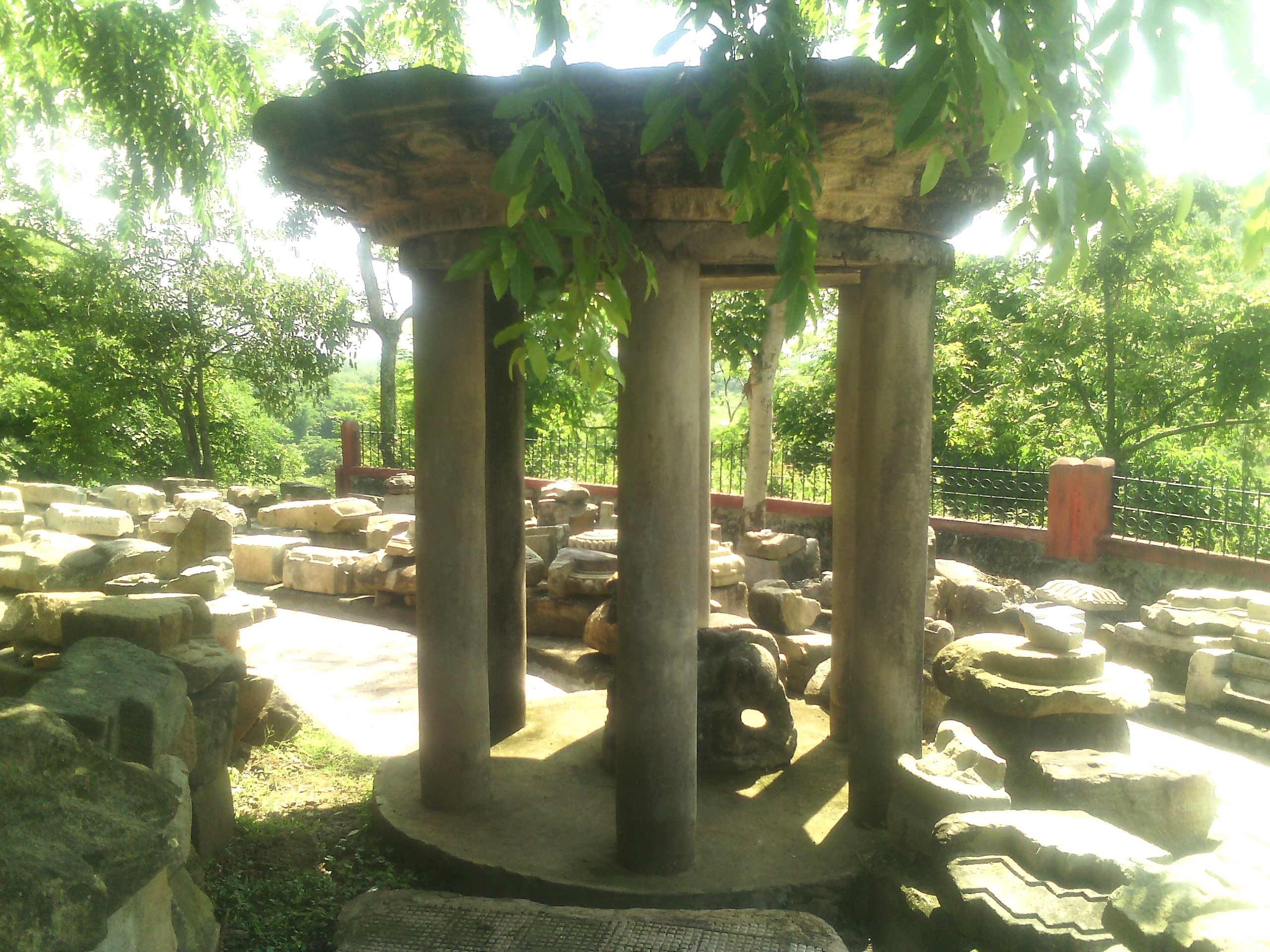 Structure at Madan Kamdev, Kamrup